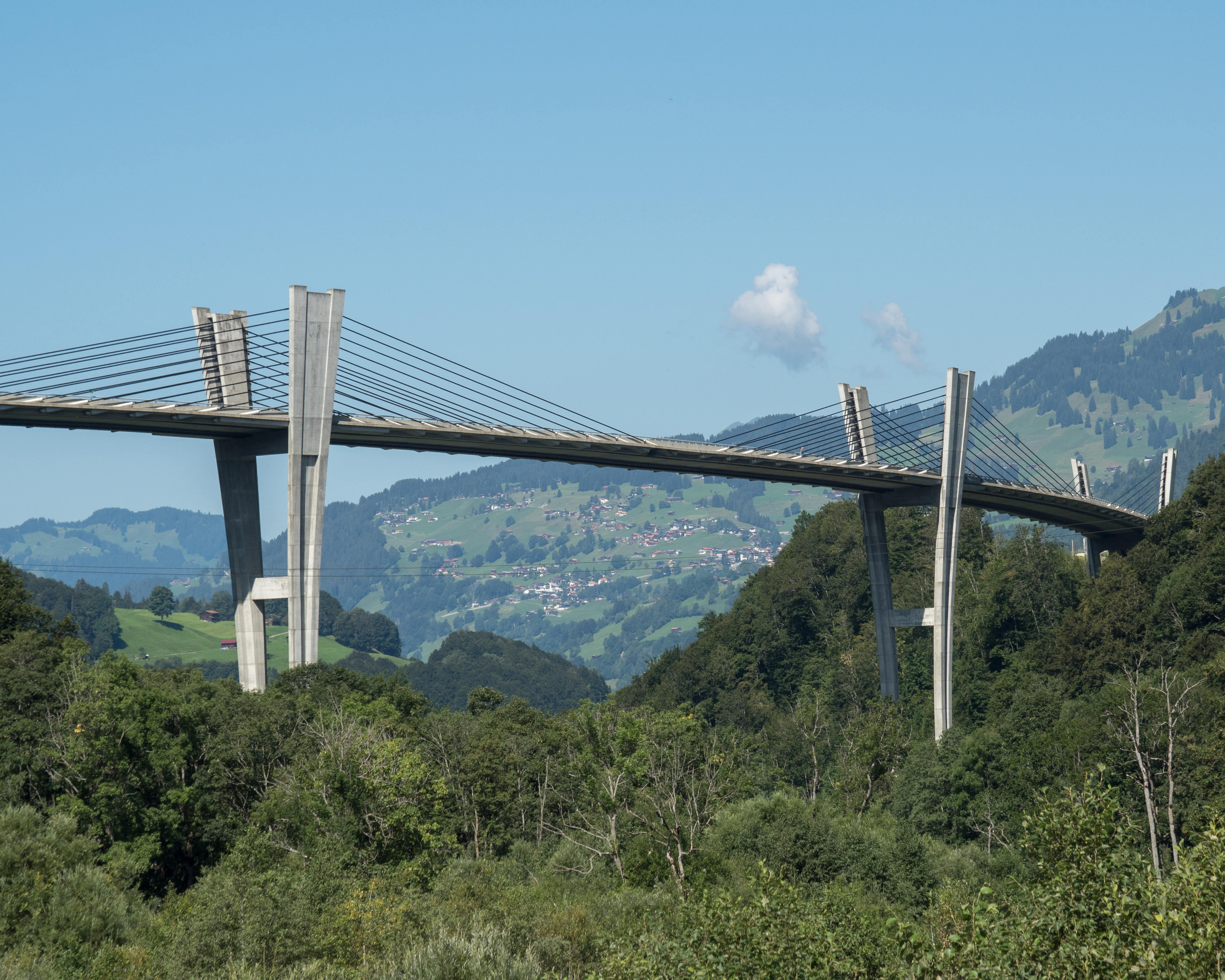 Sunniberg Extradosed Bridge over the Landquart River, Klosters-Serneus, Canton of Grisons, Switzerland